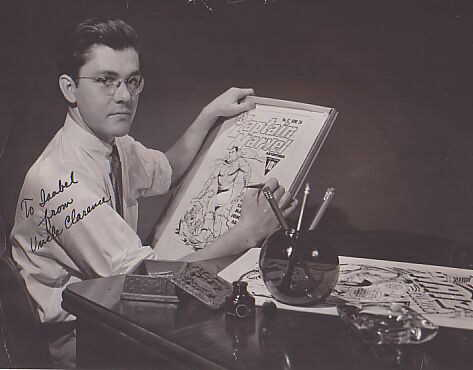 Early 1940's publicity photo to C.C. Beck's neice. He holds the black-and-white artwork for Captain Marvel Adventures #12 (June 26, 1942) in his hands.)